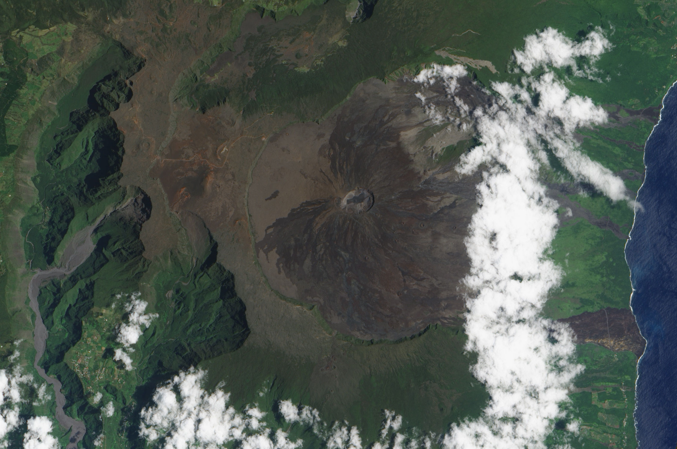 Piton de la Fournaise